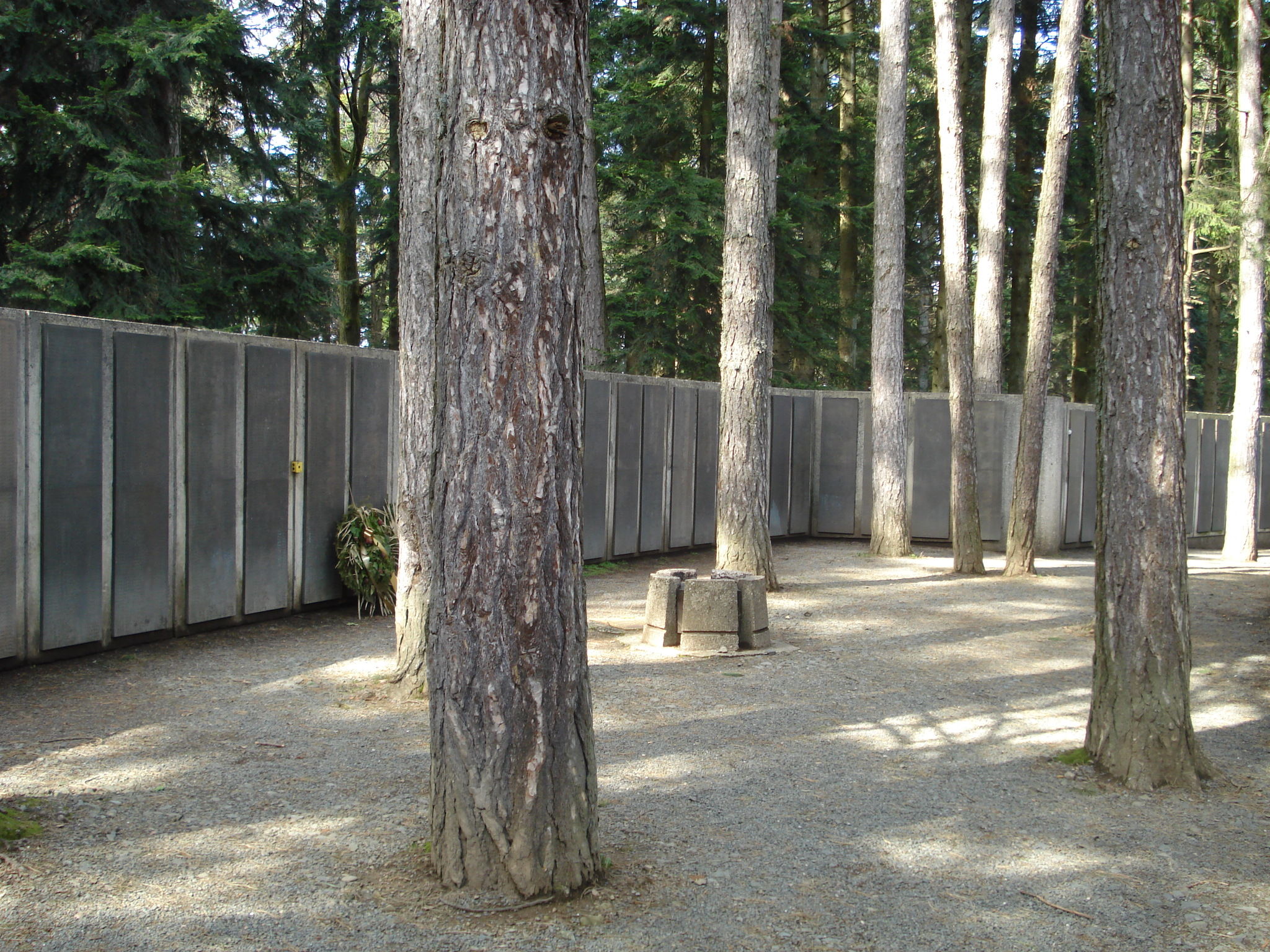 Memorial park on Mrakovica (Kozara) in northern Bosnia with names of 9921 kozara partisans fallen in war against croatian and german fascists (1941-1945)